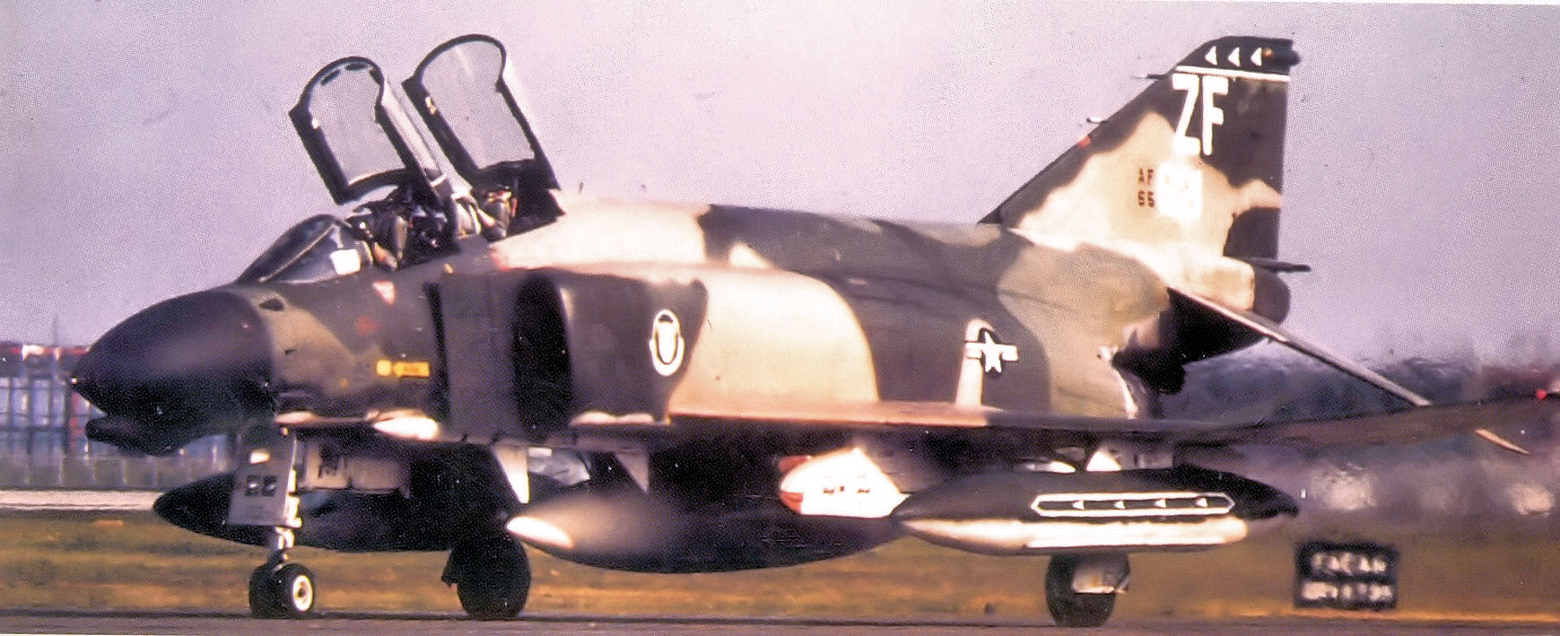 306th Tactical Training Squadron McDonnell F-4D-27-MC Phantom 65-0621 Homestead AFB, Florida, 1981. Aircraft crashed 68 nm ESE of Key West, FL Jul 5, 1983